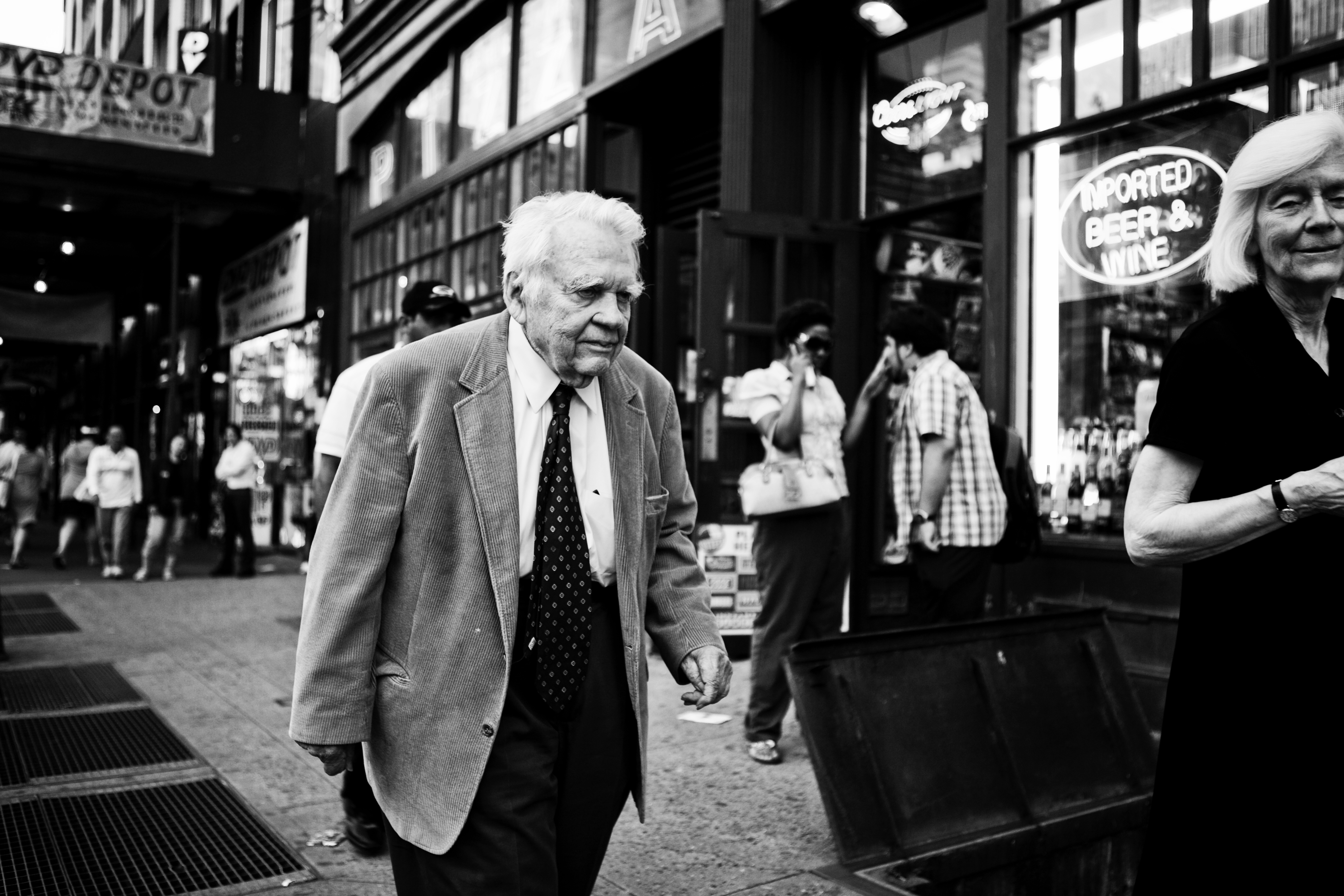 Andy Rooney, photographed by Stephenson Brown.